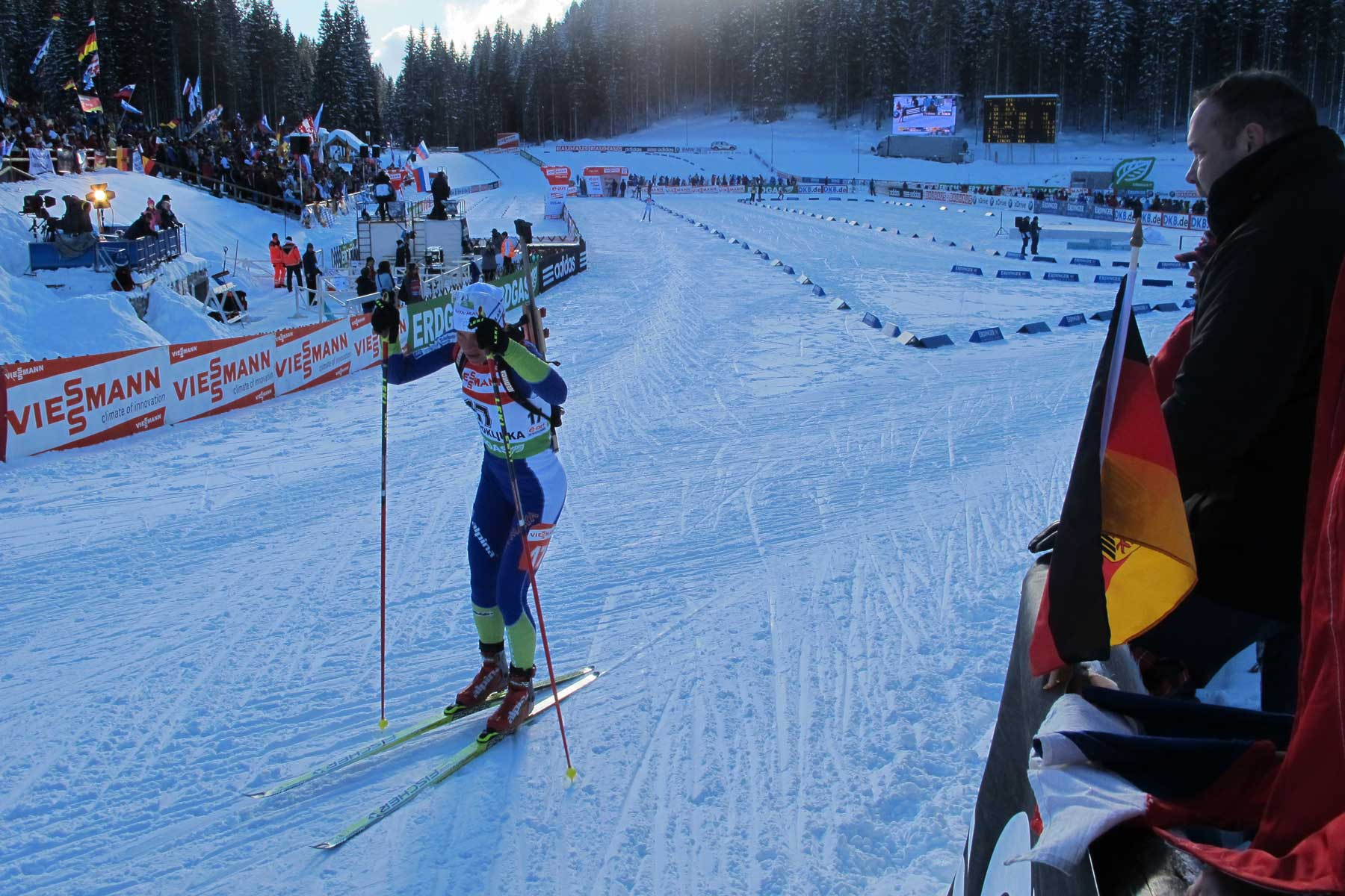 Pokljuka biathlon world cup in 2010, Teja Gregorin